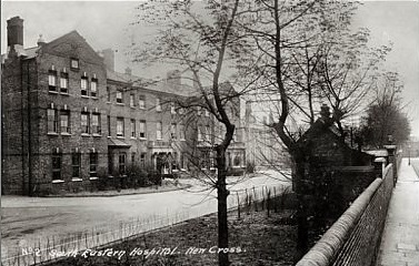 Old postcard of South Eastern Fever Hospital, New Cross